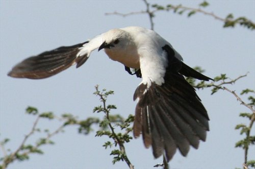 Photograph of an adult Southern Pied Babbler (Turdoides bicolor) in flight.